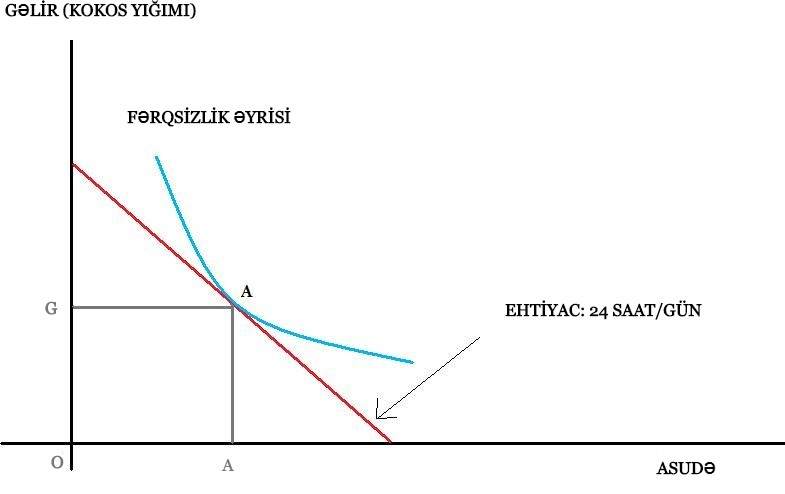 The income-leisure preference in a Robinson Crusoe Economy